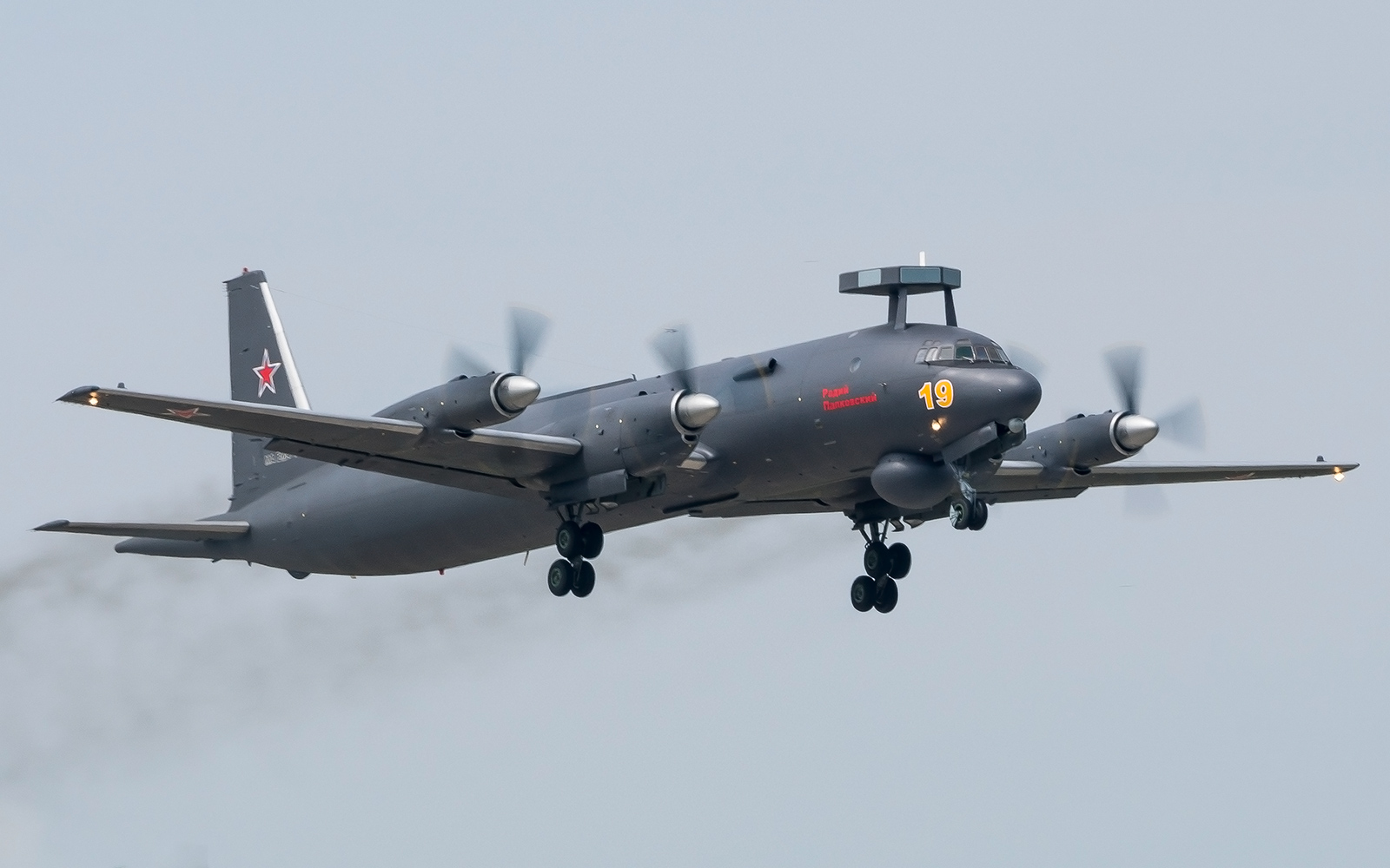 RF-75355 IL38(N) Russian Navy Air Force UUMB